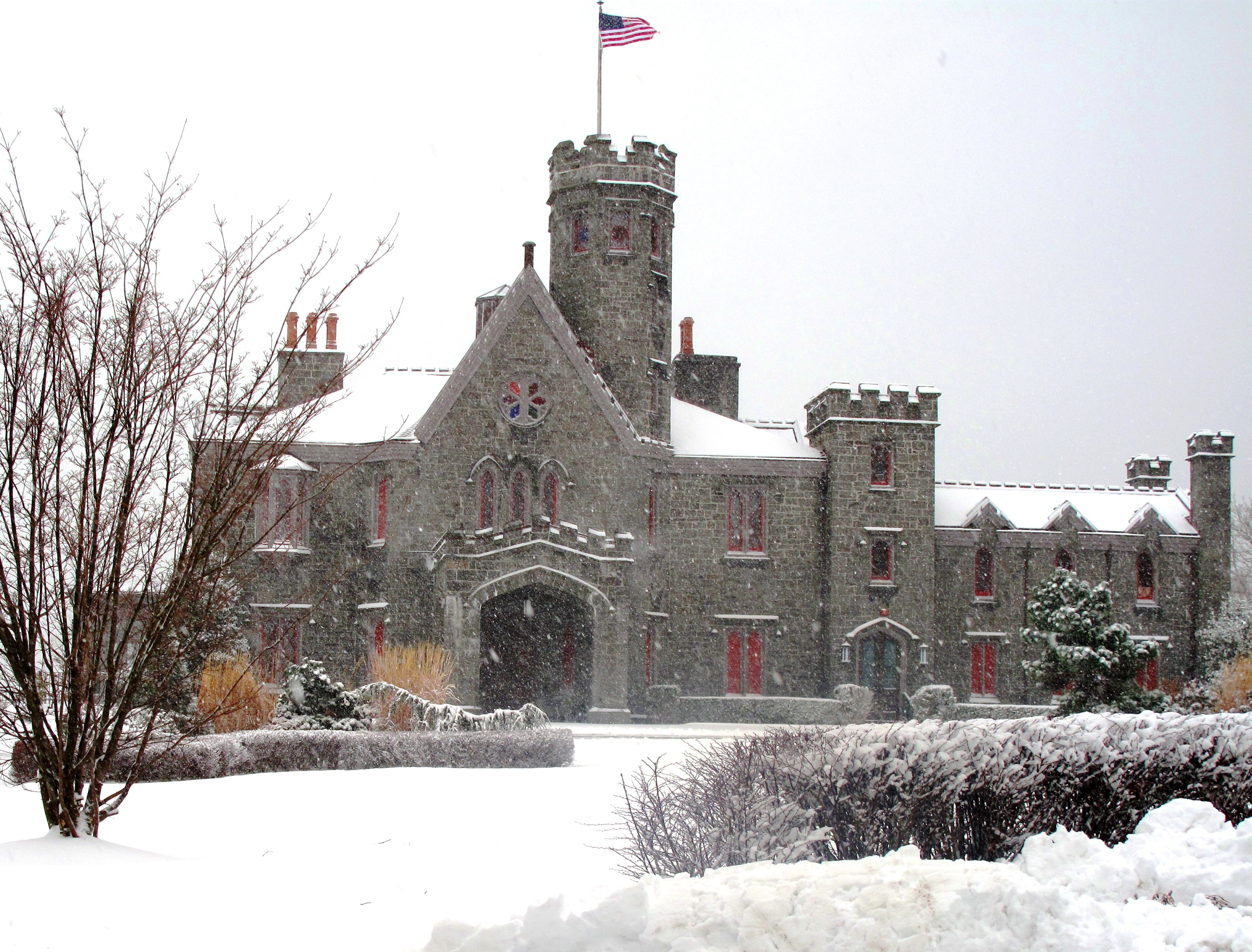 Winter view of Whitby Castle